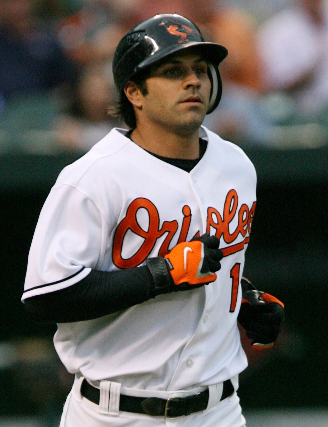 baseball player as shot by photographer Keith Allison